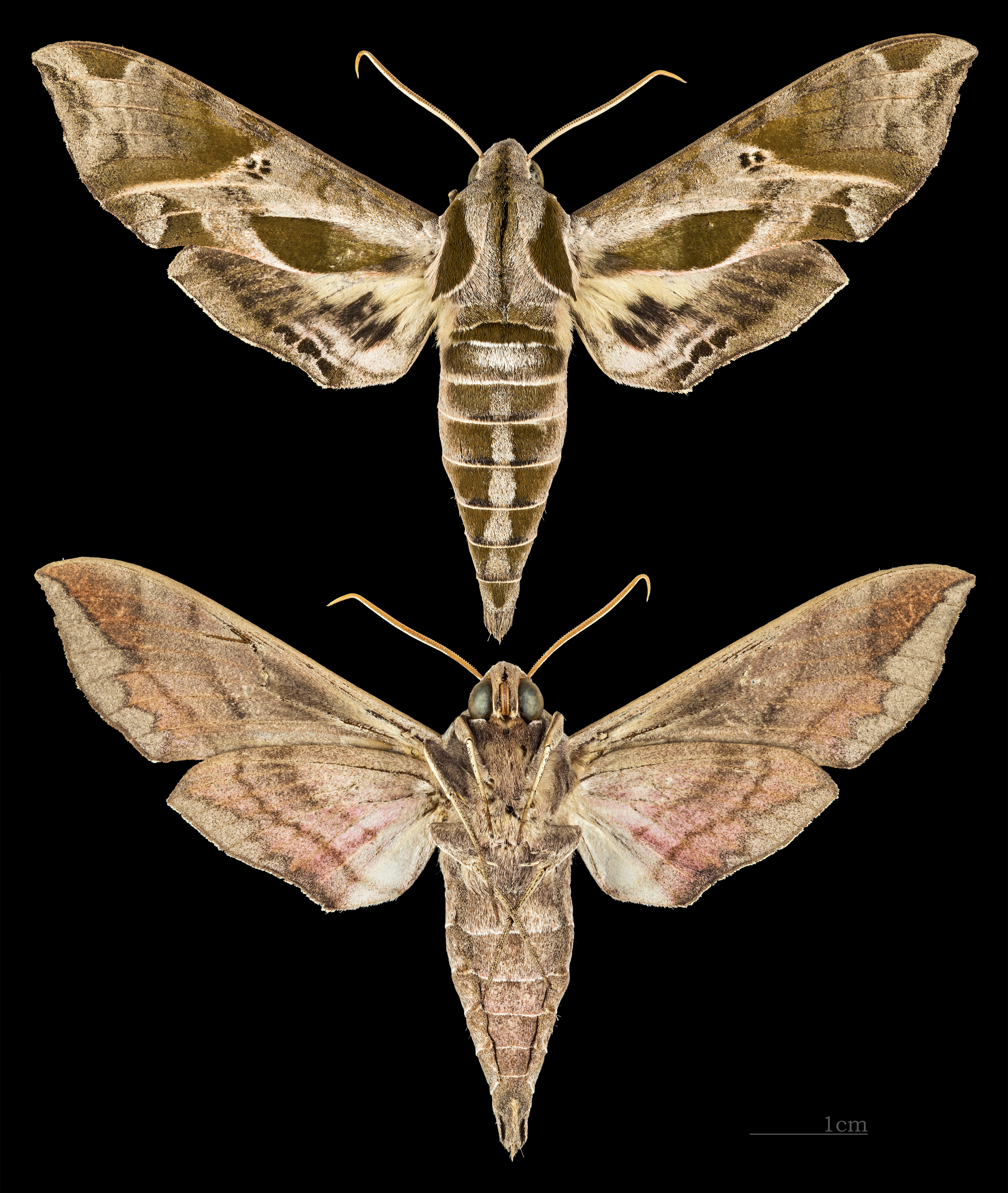 Satellite sphinx - Two views of same specimen Collection of the Mathematician Laurent Schwartz